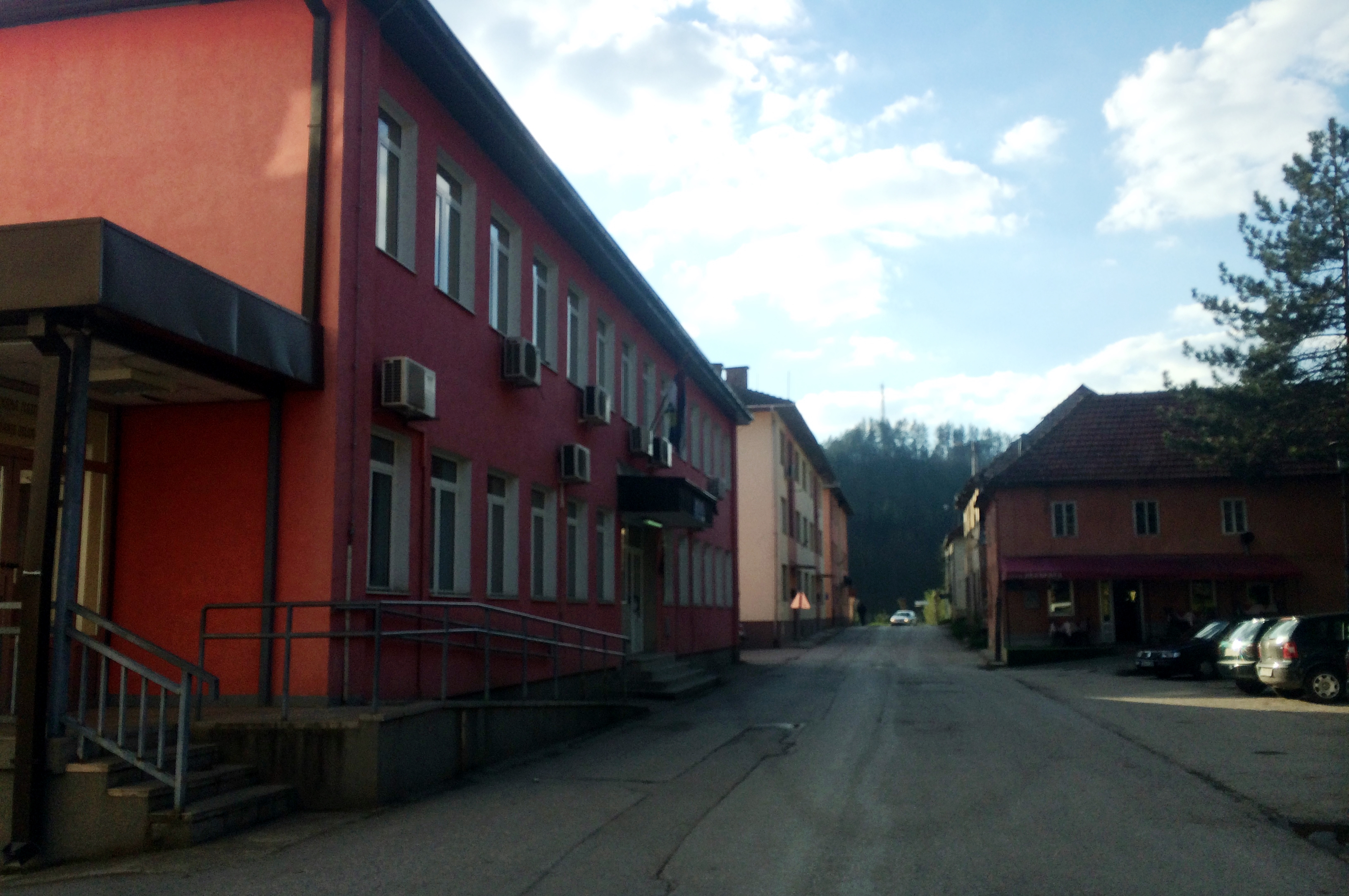 Image from the border city of Rudo, center of Rudo municipality in southeastern Bosnia-Hercegovina. The city has both a mosque and an orthodox church, and a bridge across the Lim spanning from Serbia into Bosnia at Rudo.